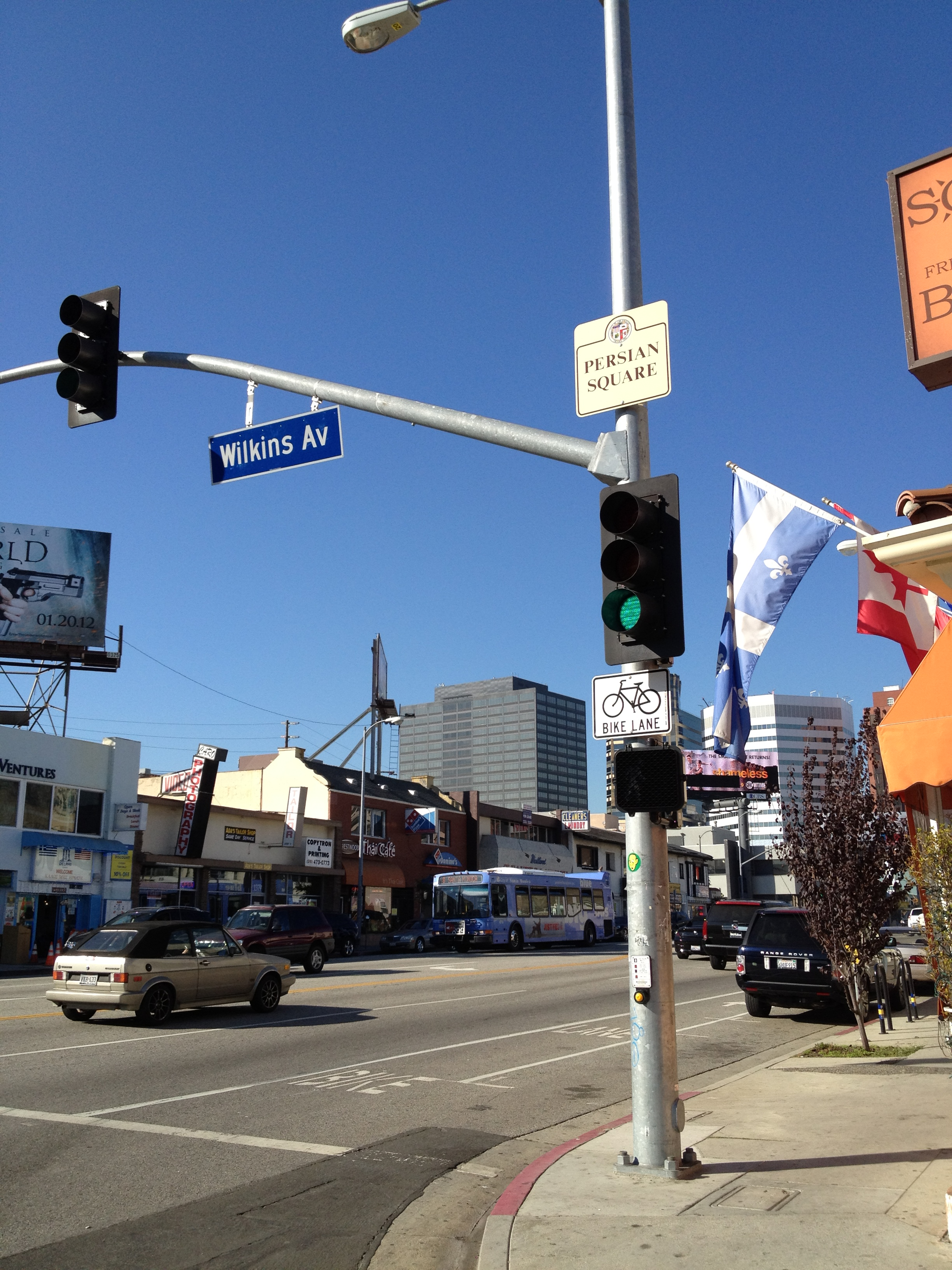 I have taken this photo.